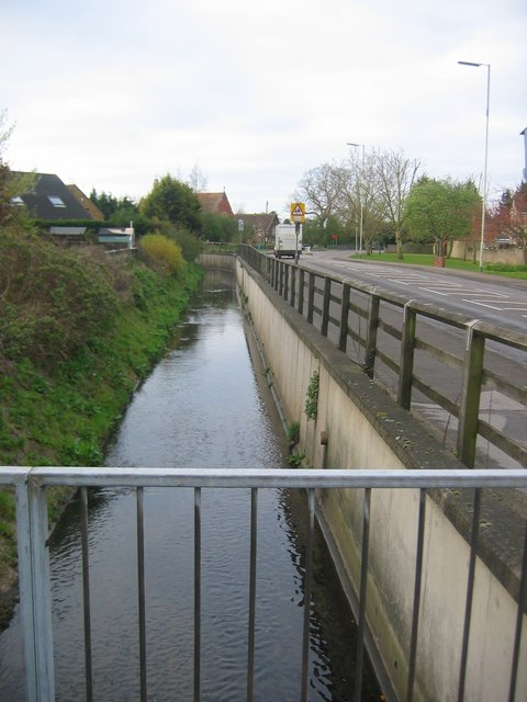 Picture of Turnford Brook at Turnford , Hertfordshire